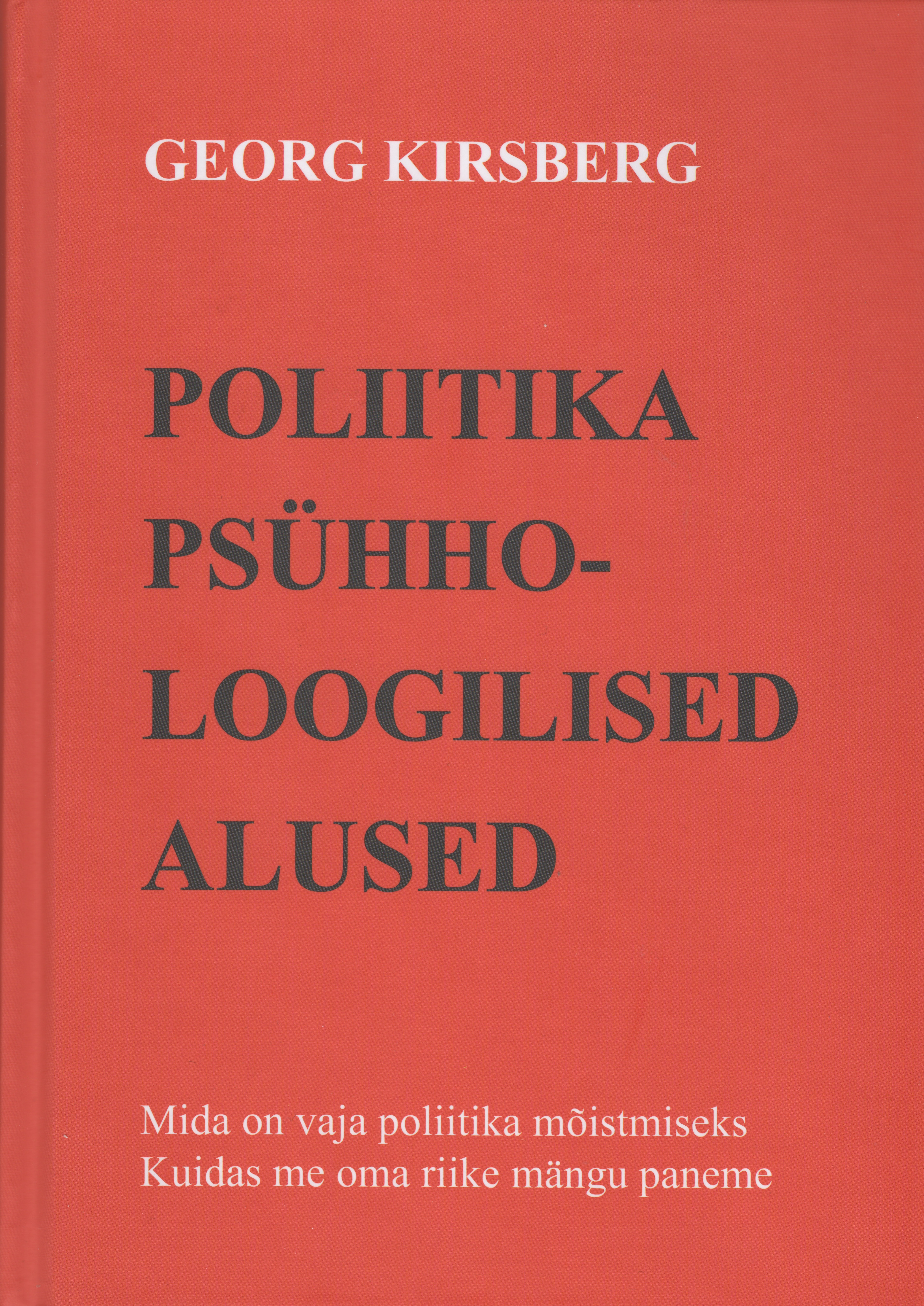 Poliitika Psühholoogilised Alused